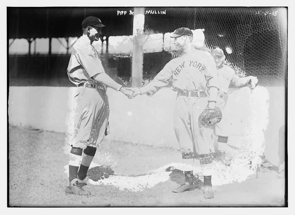 Bain News Service,, publisher. [Wally Pipp and Charlie Mullen, both 1B, New York AL (baseball)] 1915. 1 negative : glass ; 5 x 7 in. or smaller. Notes: Original data provided by the Bain News Service on the negatives or caption cards: Pipps, Yanks & Mullin,NY - Fed, 1915. Corrected title based on research by the Pictorial History Committee, Society for American Baseball Research, 2006. Forms part of: George Grantham Bain Collection (Library of Congress). Format: Glass negatives. Repository: Library of Congress, Prints and Photographs Division, Washington, D.C. 20540 USA, General information about the Bain Collection is available at Higher resolution image is available (Persistent URL): Call Number: LC-B2- 3425-15